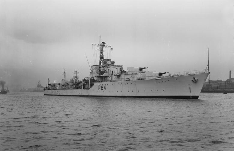 British destroyer HMS SAINTES underway on the Tyne.